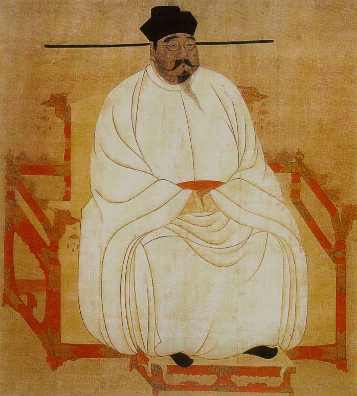 Depicted person: Song Taizu